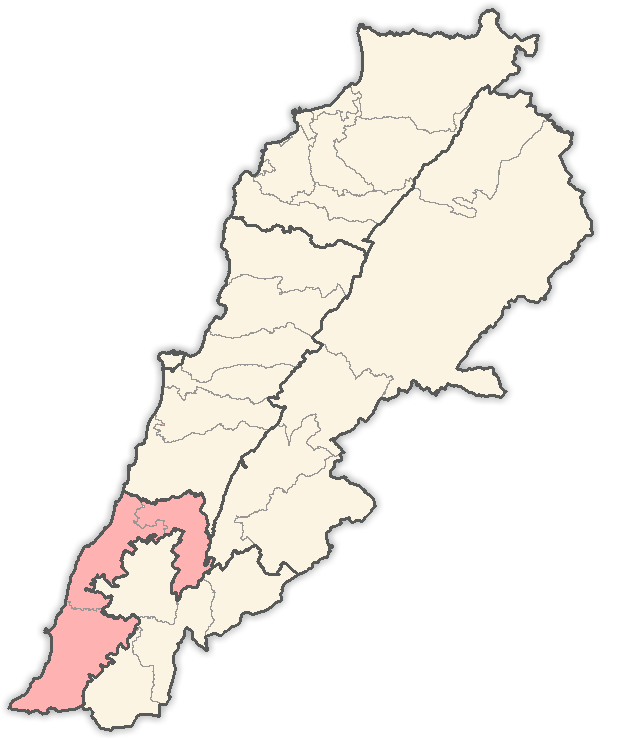 I made it